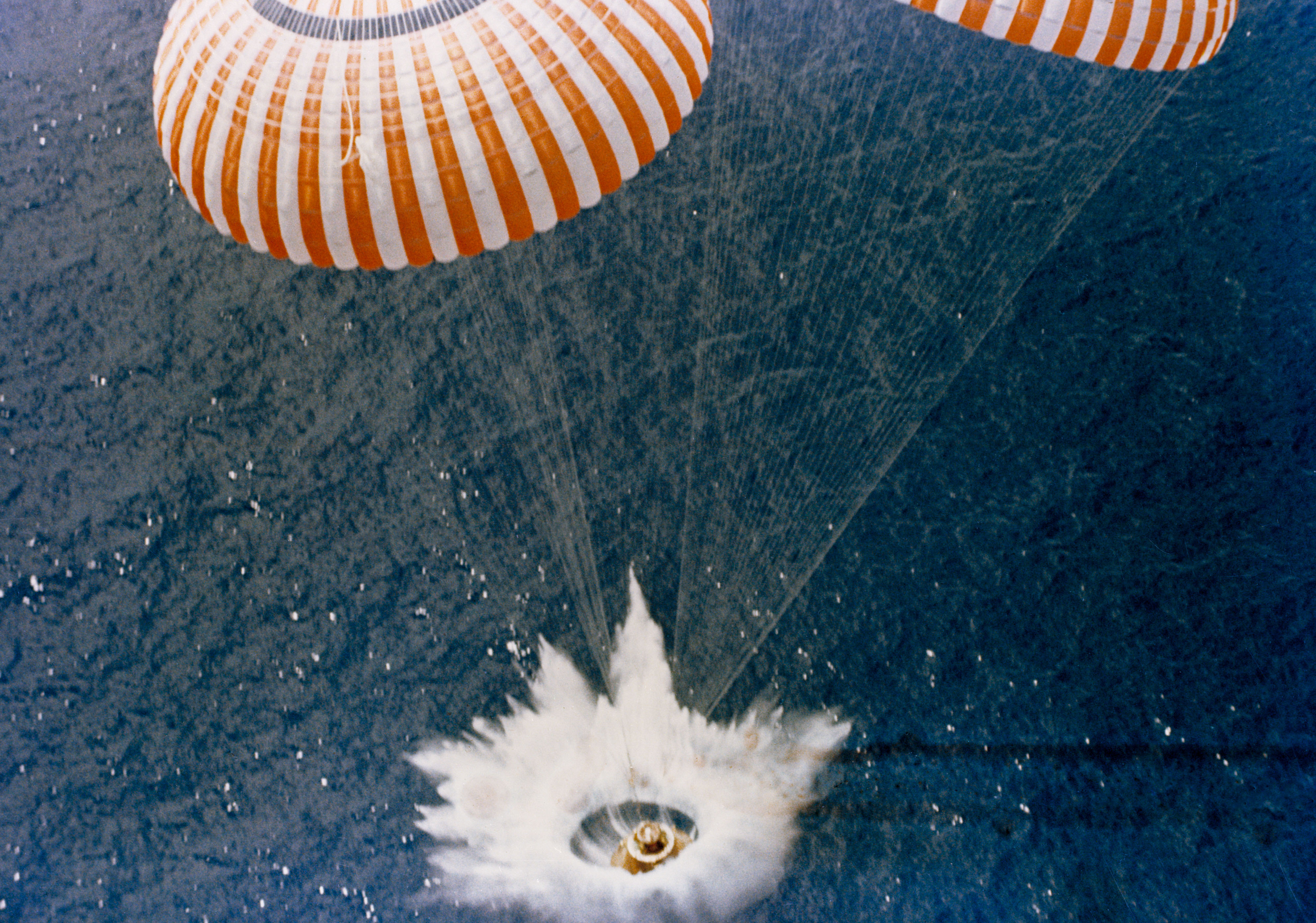 S71-43543 (7 Aug. 1971) --- The Apollo 15 Command Module (CM), with astronauts David R. Scott, commander; Alfred M. Worden, command module pilot; and James B. Irwin, lunar module pilot, aboard safely touches down in the mid-Pacific Ocean to conclude a highly successful lunar landing mission. Although causing no harm to the crew men, one of the three main parachutes failed to function properly. The splashdown occurred at 3:45:53 p.m. (CDT), Aug. 7, 1971, some 330 miles north of Honolulu, Hawaii. The three astronauts were picked up by helicopter and flown to the prime recovery ship, USS Okinawa, which was only 6 1/2 miles away.